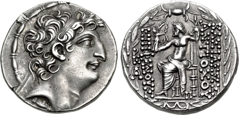 Antiochos VIII Epiphanes. Antioch mint. circa 109-96 BC.